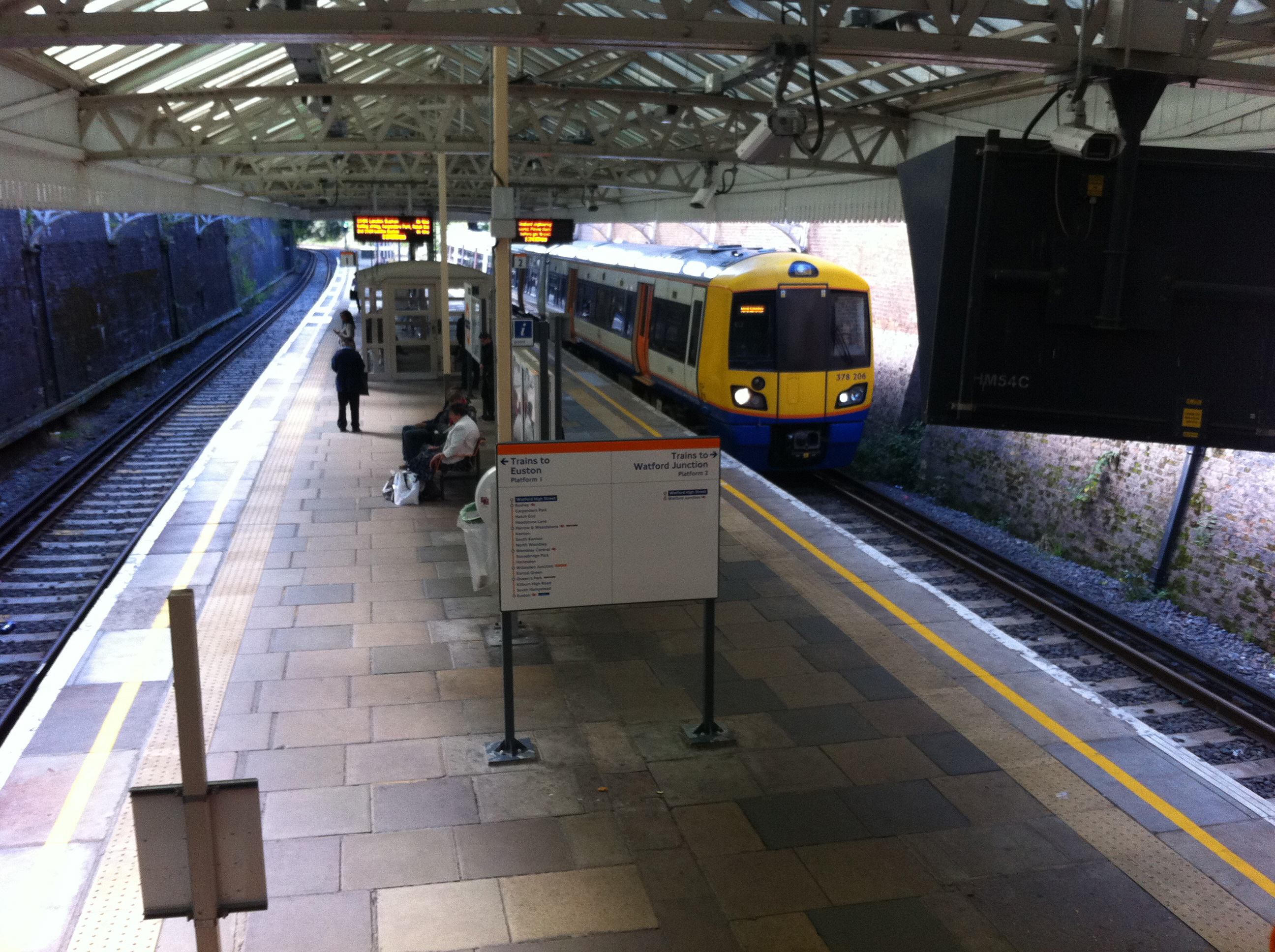 A northbound London Overground Class 378 arrives at Watford High Street station in Watford, Hertfordshire, UK.